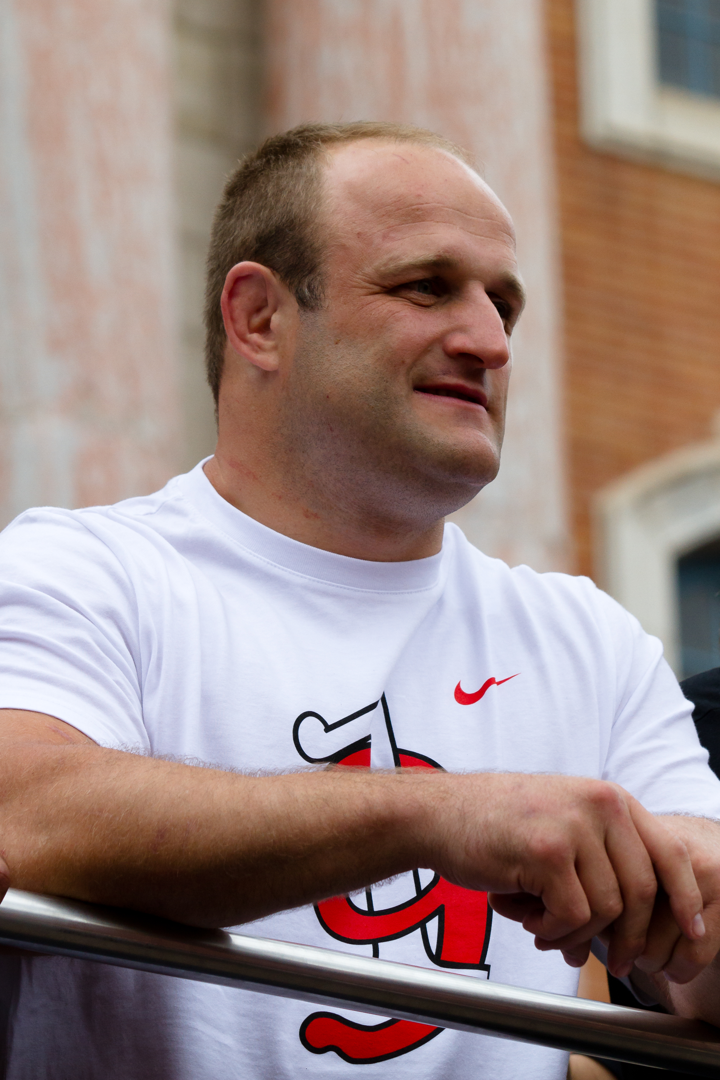 William Servat in the Capitole de Toulouse to celebrate the 19th national championship title of the Stade toulousain.